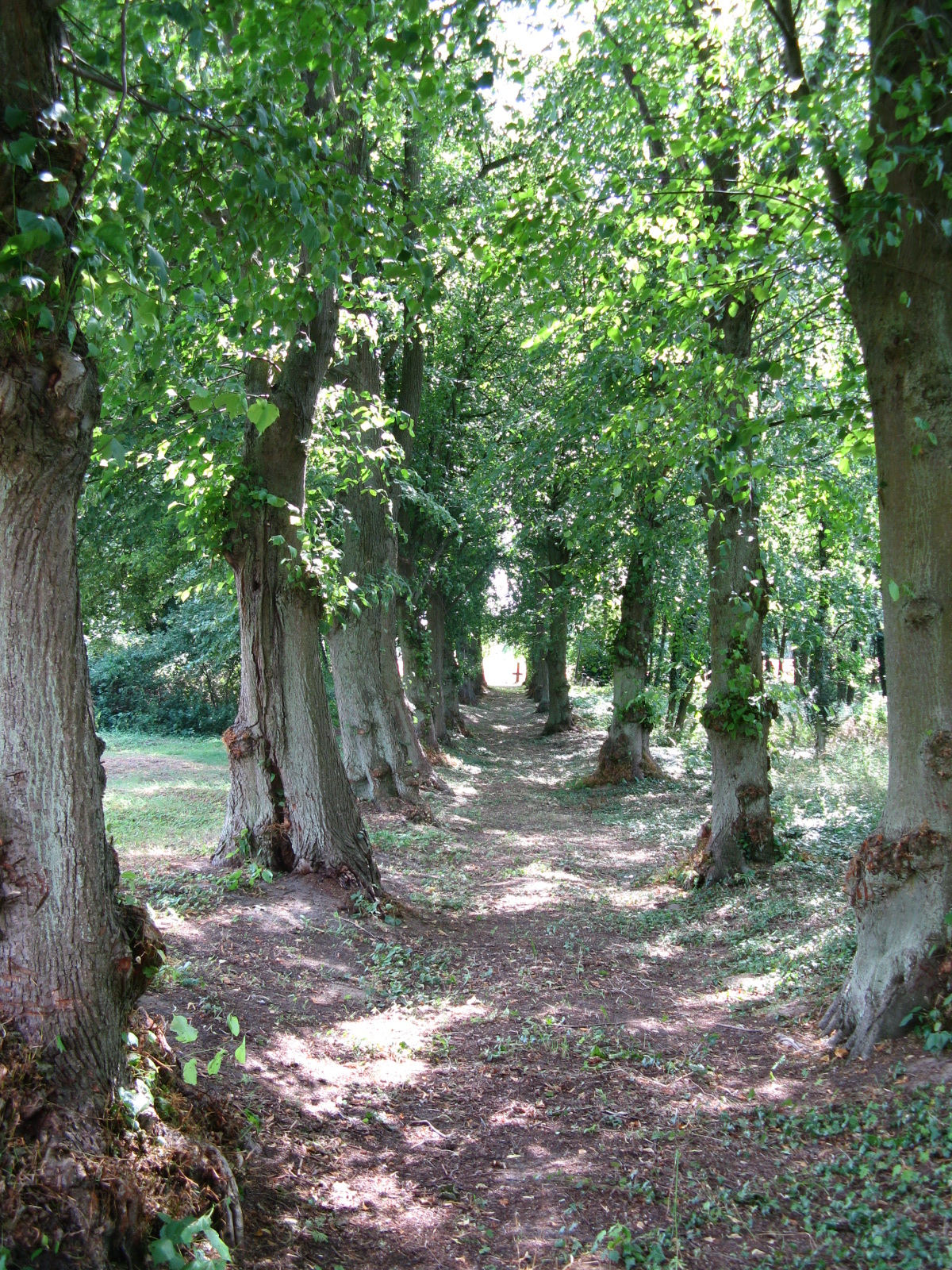 Old avenue at church in Nossentin, disctrict Müritz, Mecklenburg-Vorpommern, Germany